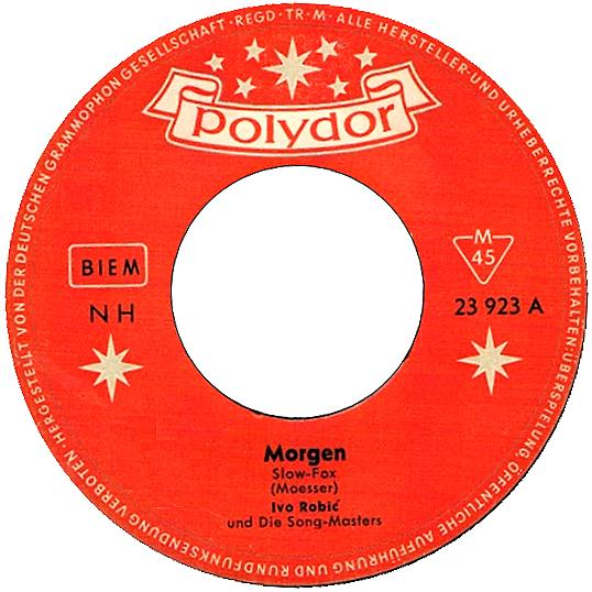 Cover from the Single Morgen (1959) from Ivo Robic